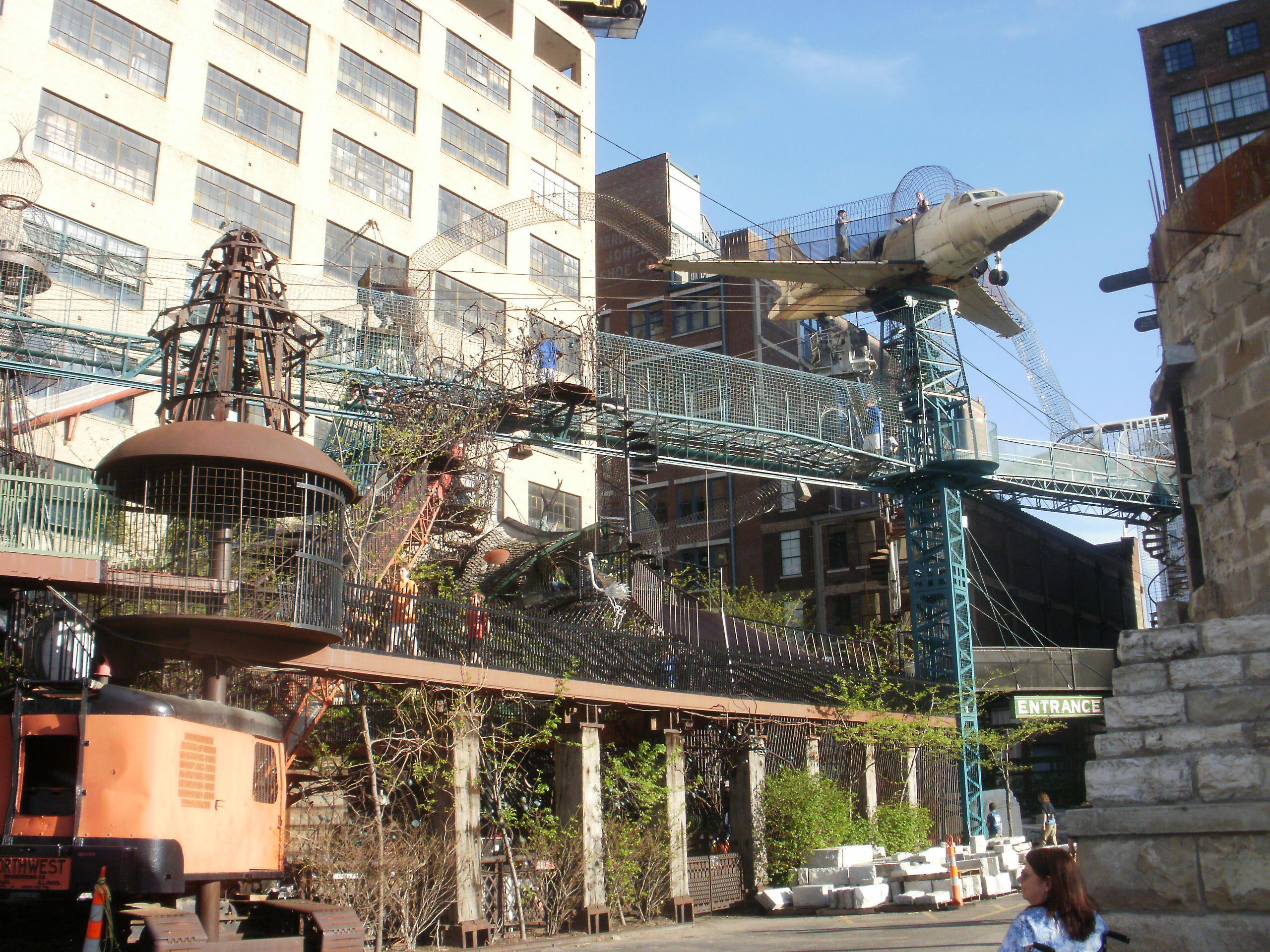 View of the outdoor structures at City Museum in St. Louis, Missouri.